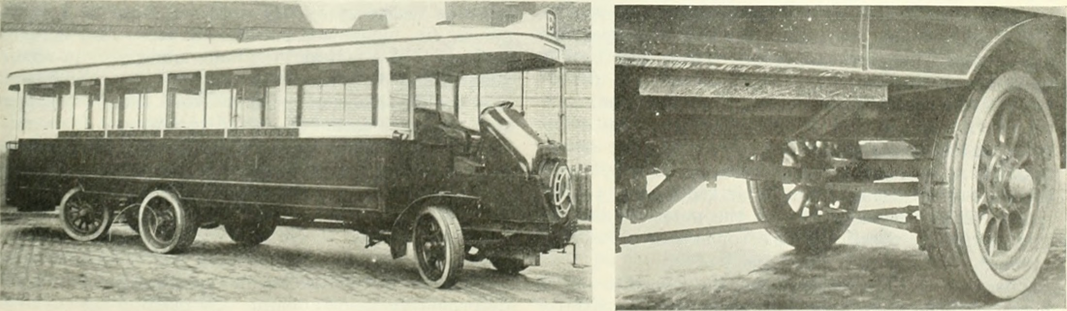 Title: Automotive industries Year: 1899 (1890s) Authors: Subjects: Automobiles Aeronautics Publisher: Philadelphia (etc.) Chilton (etc.) Text Appearing Before Image: mpany has been making use of a three-axle chassis for tankers bringinggasoline and benzole from the refineries to the bus depots.All Paris surface lines, comprising trolley cars andbuses, went under the direct control of the municipal au-thorities on January 1st. The municipality is not runningthese lines itself, but is farming them out to an operatingcompany, which is interested, to a certain extent, in thefinancial success of the concern. There will be no competi-tion between electric trolley and gasoline omnibus lines,but cooperation between the two, each type being extendedaccording to the requirements of traffic. AMONG publications recently issued by the Directorof the Air Service, Washington, are the following:Instructions for Installing 85-A Mixture Control inZenith US-52 Carbureters, Performance Test of U.S.X.B.I.A. with 300 HP. Hispano-Suiza Engine and Per-formance Test of U.S.X.B.I.A. with 300 HP. Hispano-Suiza Engine Showing Improvement in Performance withPropeller X-19677. Text Appearing After Image: • • I motor bus now beimj •■,,/„ rimented with in Paris.Front and reai steering giv!! Paris bus is duplicate of front axle.Only the center axle has driving irheels 924 AUTOMOTIVE INDUSTRIESTHE AUTOMOBILE April 28, 1921 e«i i. b. Pit. os